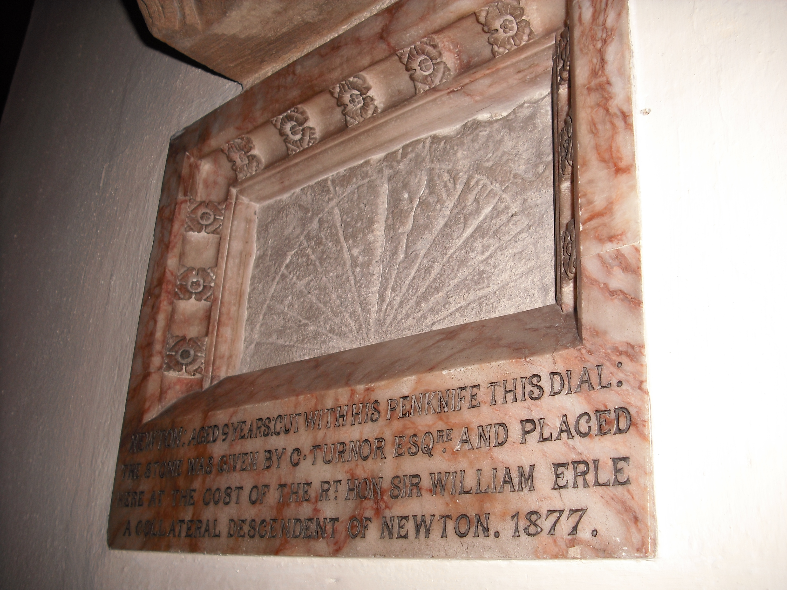 Wall-mounted monument framing Isaac Newton's scratch sundial in St John the Baptist's parish church, Colsterworth, Lincolnshire